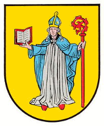 Coat of arms of Ottersheim (bei Kirchheimbolanden)